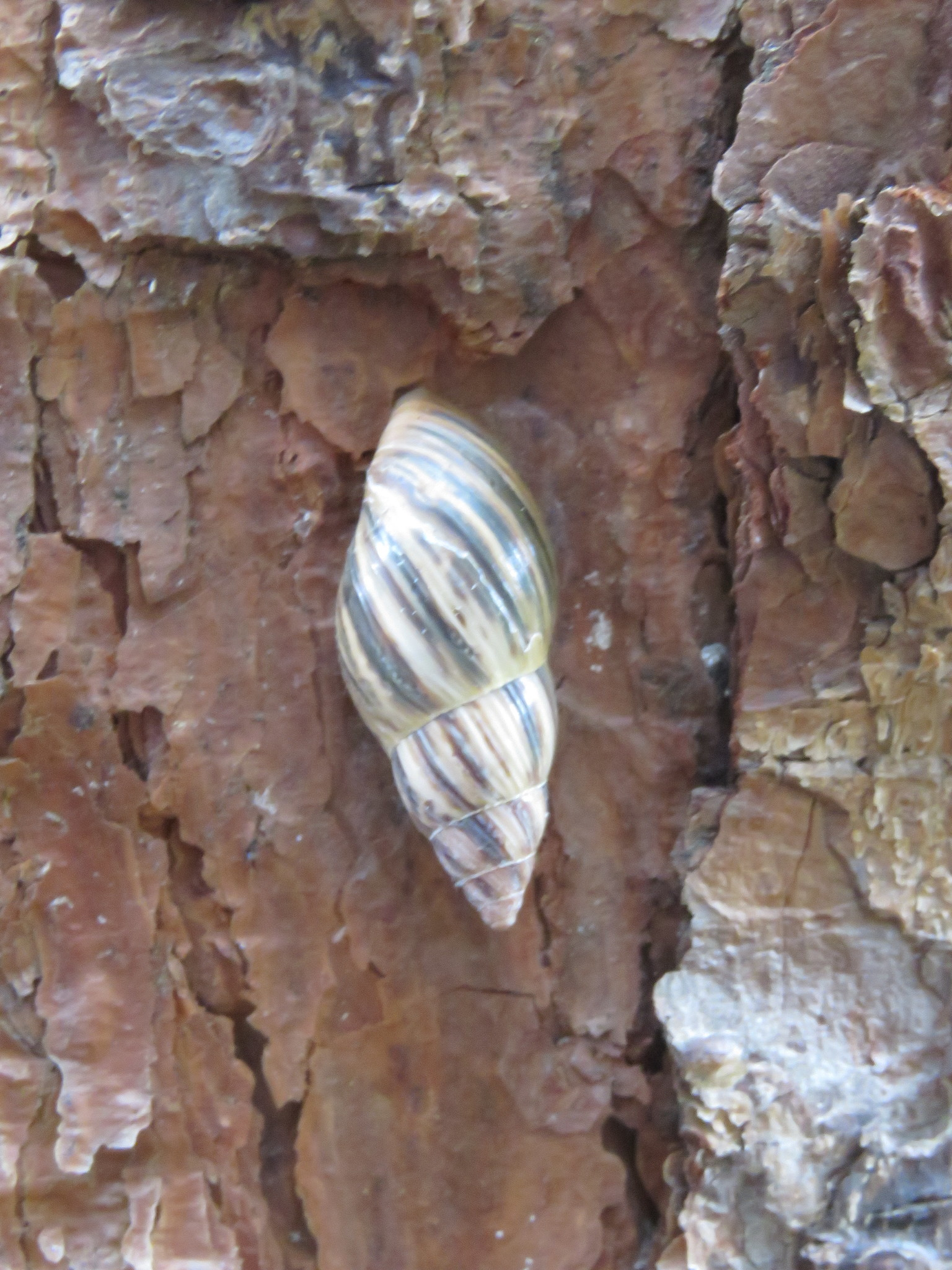 Drymaeus convexus. Species of mollusc.